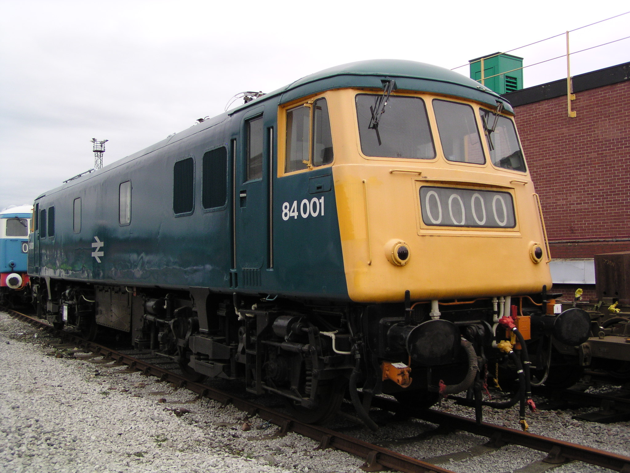 British Rail Class 84, no. 84001 at Crewe Works open day on 11th September 2005.